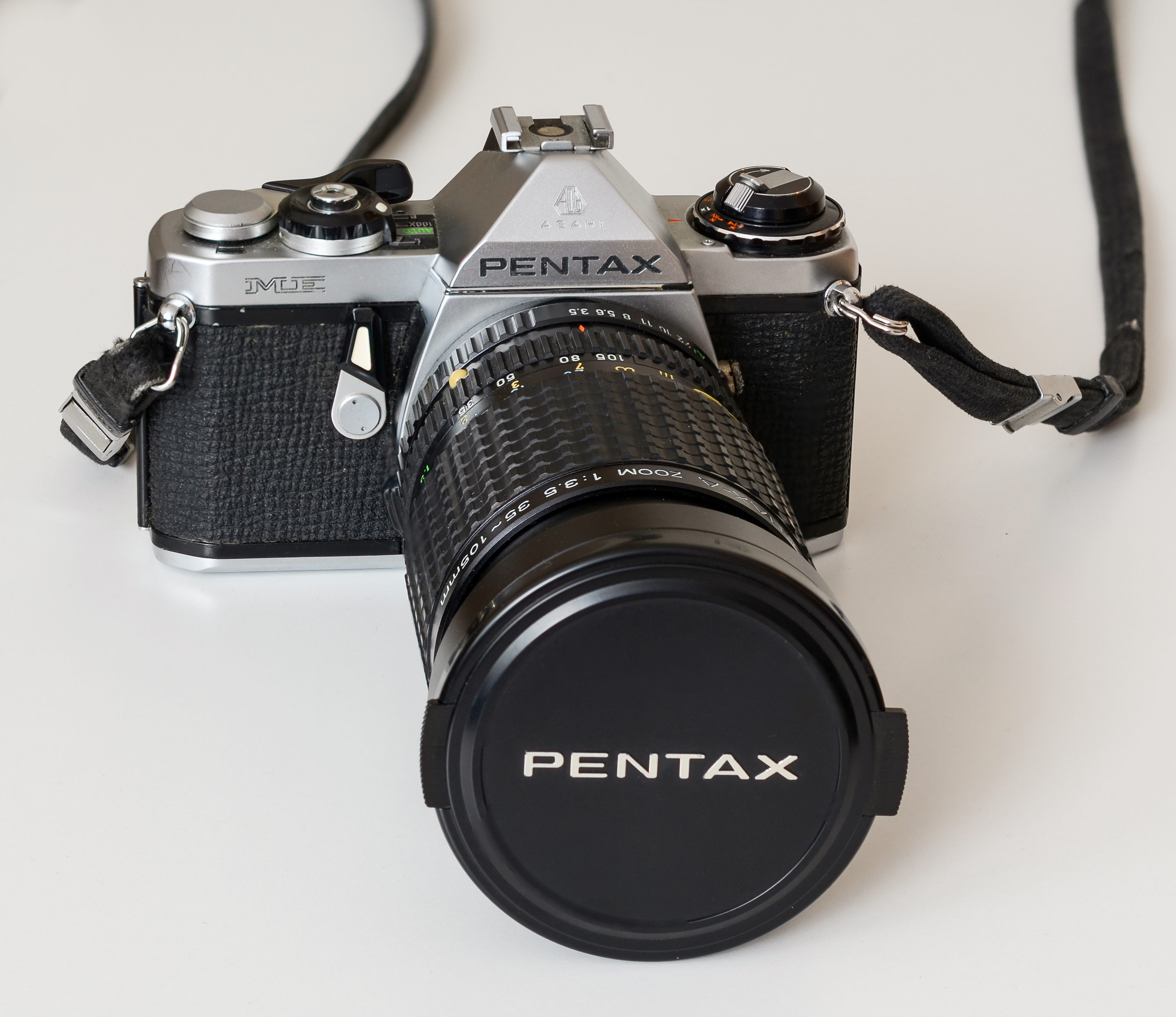 Pentax ME with mounted 1:3.5 35-105 Zoom